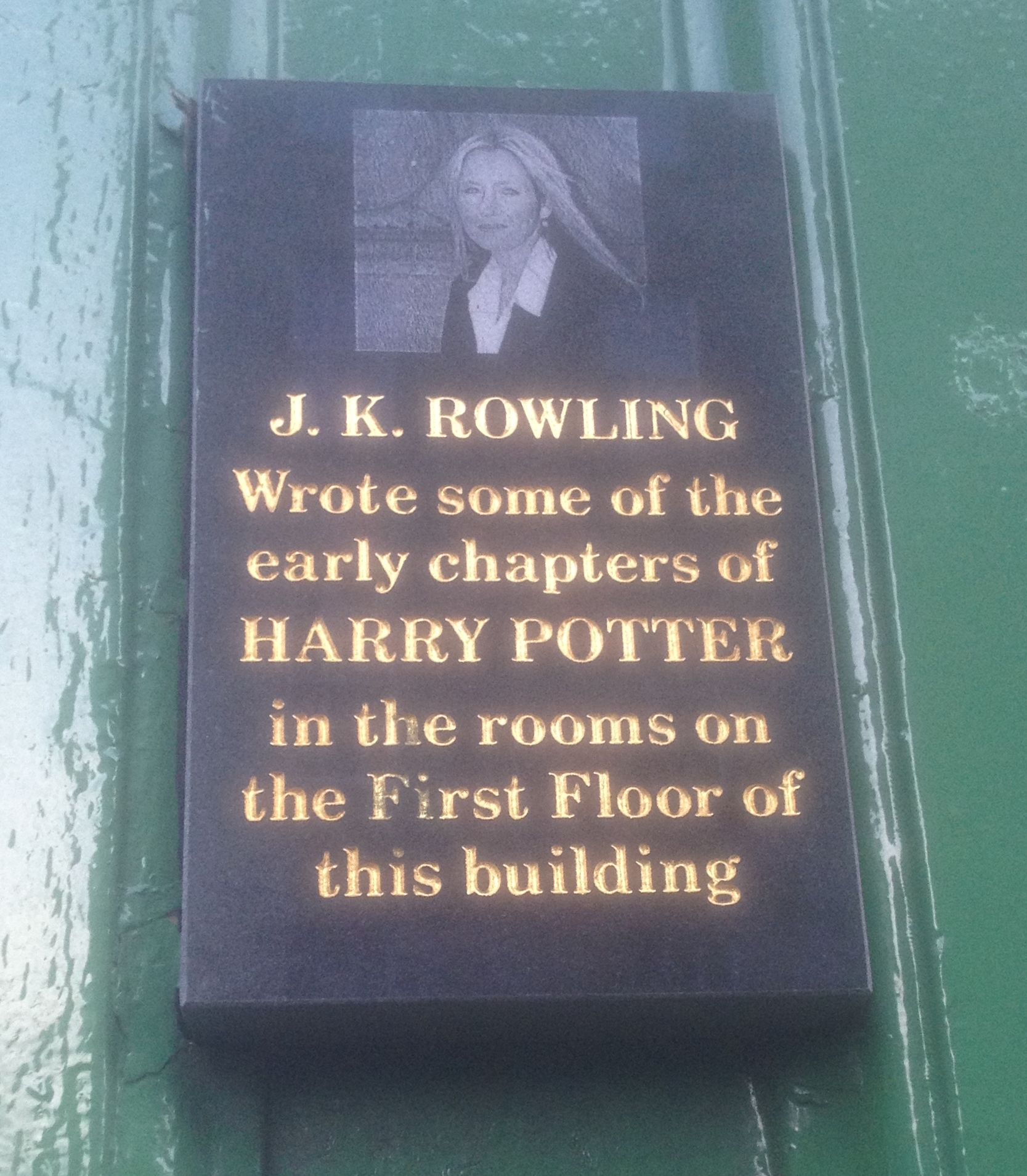 Plaque outside the former Nicolson Café Nicolson Street, Edinburgh. The Plaque commemorates the place where J.K. Rowling wrote some of her Harry Potter books.